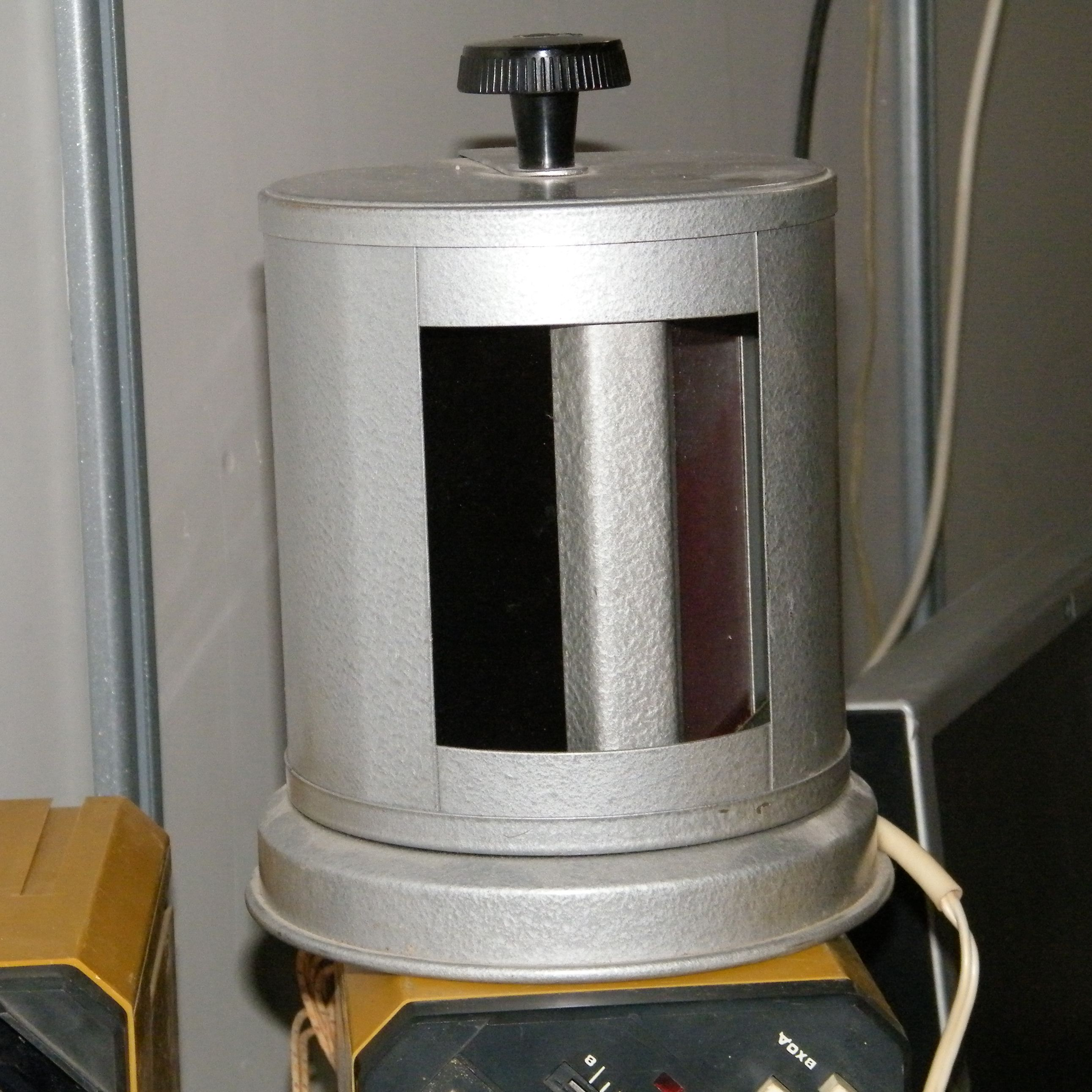 Трехцветный лабораторный фонарь